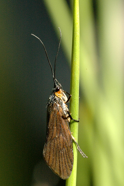 Picture taken in Commanster, Belgian High Ardennes . Species: Lepidostoma hirtum - Misidentified: this is Oligotricha striata!